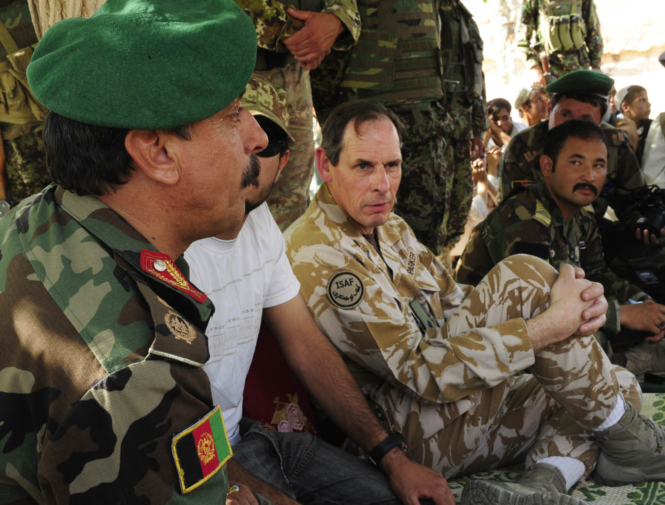 ISAF Deputy Commander, British Lt. Gen. Nick Parker, middle, attends a shura with Afghanistan National Army Brig. Gen. Akram Sameh, left, to assess the needs and capabilities of the people living in Qa Ryeh Sirakin, a village in Farah Province, April 7, 2010. Gen. Parker also met with Afghan, Italian and American forces during his two-day visit to the Farah Province. (ISAF Photo by U.S. Air Force Senior Airman Rylan K. Albright)